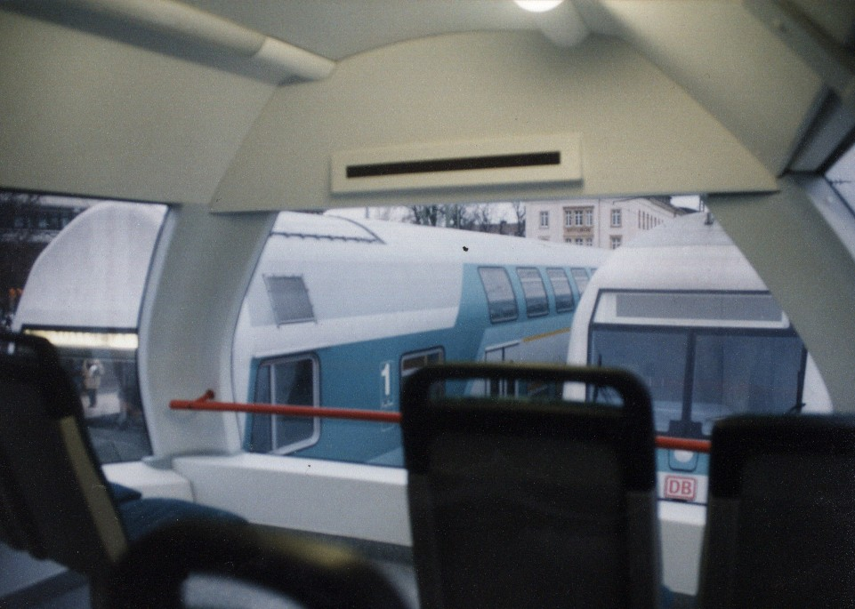 DB 670 Prototyp, doubledeck railbus (Bahnhofsfest Reutlingen), great view.